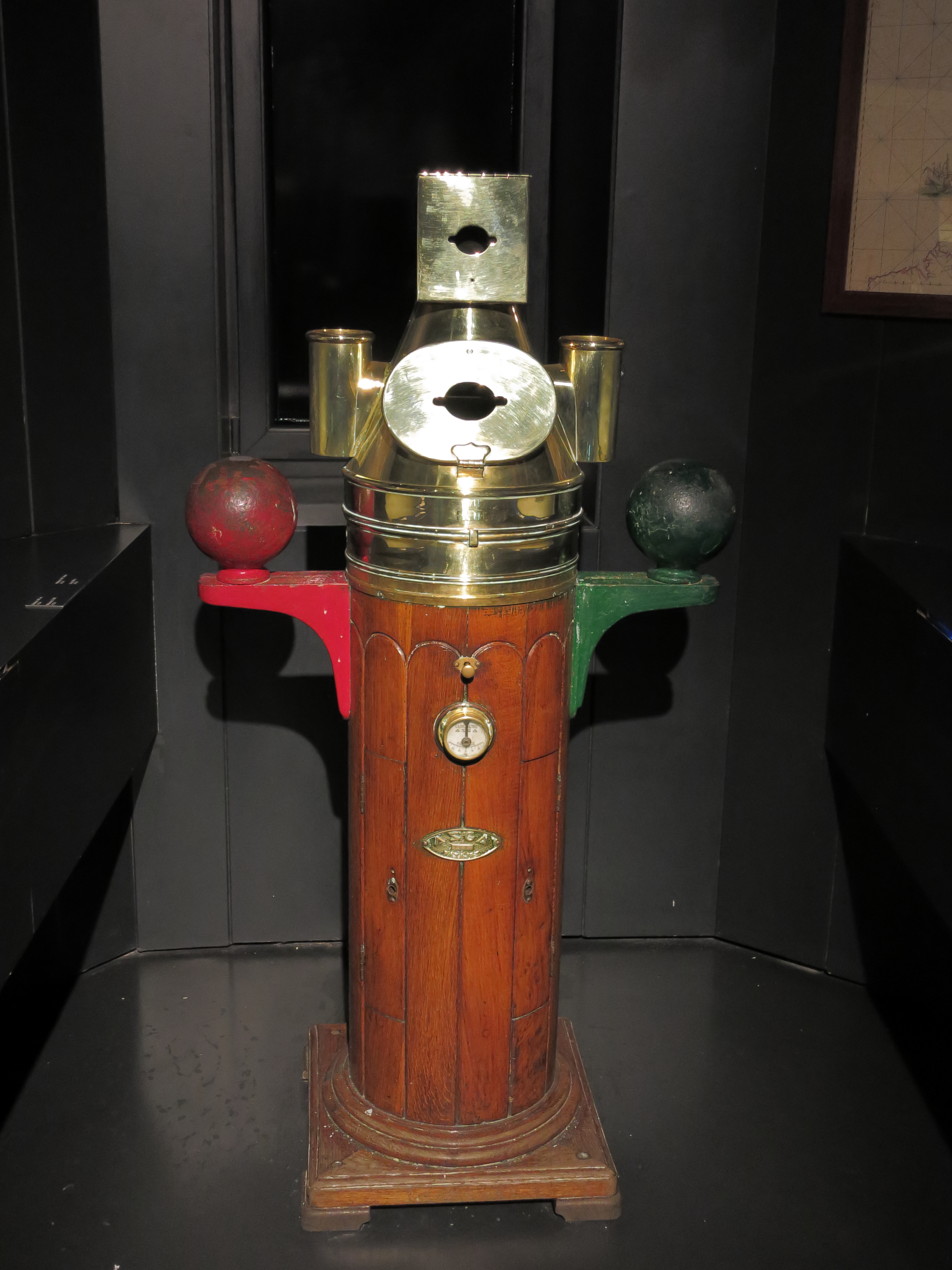 Binnacle in the Aquarium de Donosti-San Sebastián. Spanisch Basque Country.